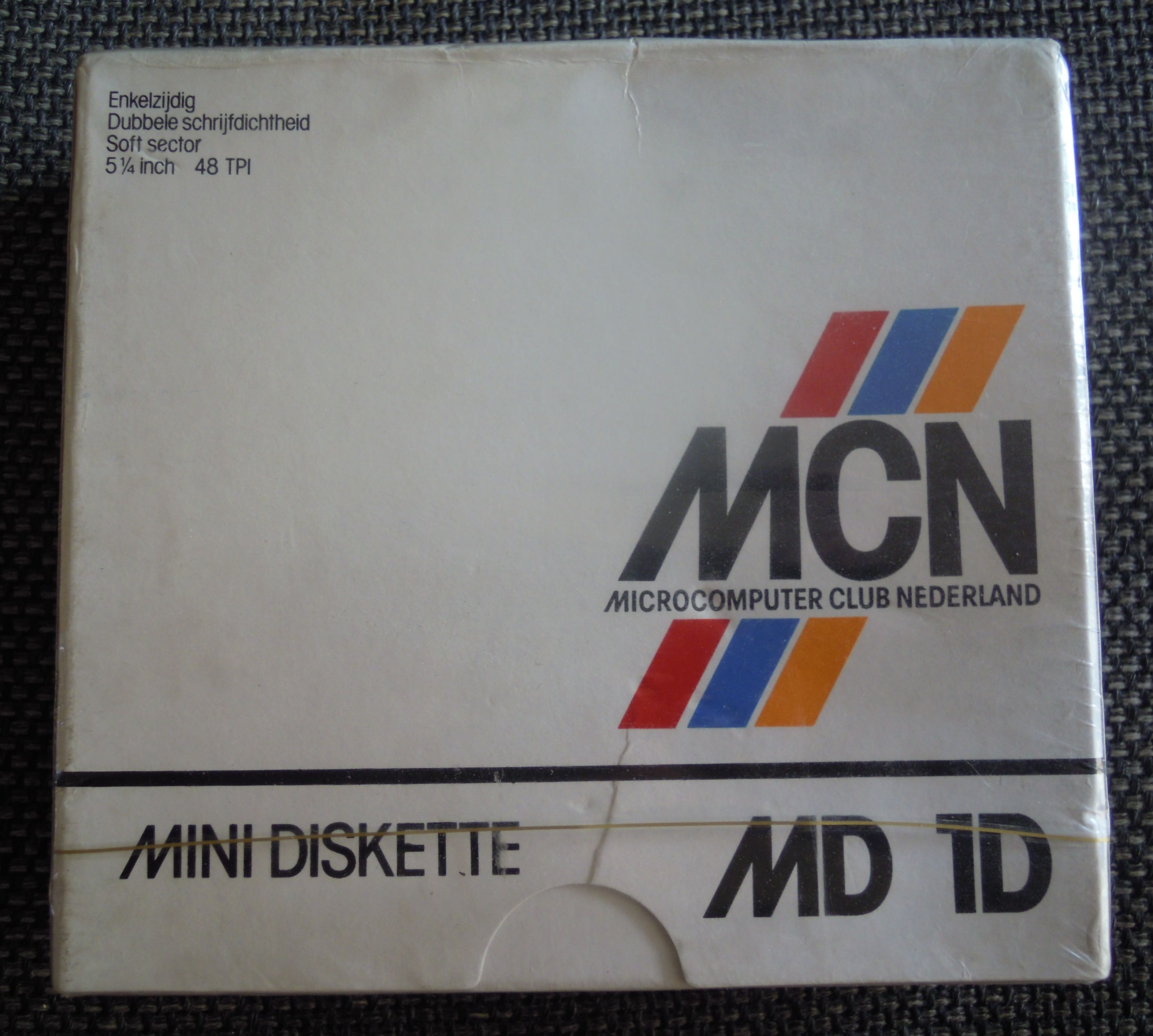 Box of 5¼ inch MCN disks